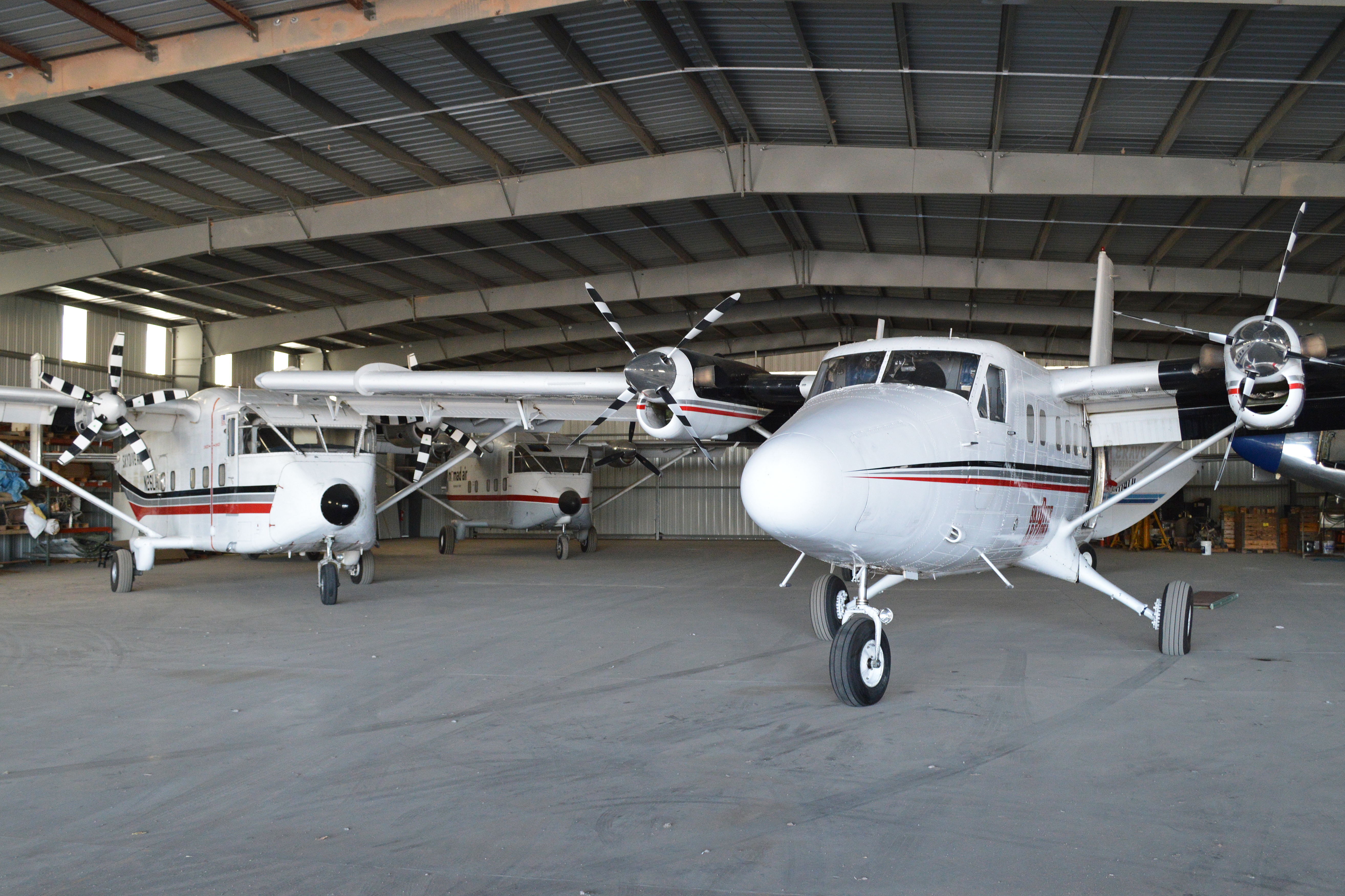 Prominent in this shot of the active Skydive Arizona hangar is DHC6-200 Twin Otter 'N924MA' c/n 216, while to the left is Short Skyvan 'N26LH' c/n SH.1925. These two types making up the bulk of the Skydive fleet. Two other Skyvans are also visible deep in the hangar. Eloy Municipal Airport. Arizona, USA. 11-2-2014